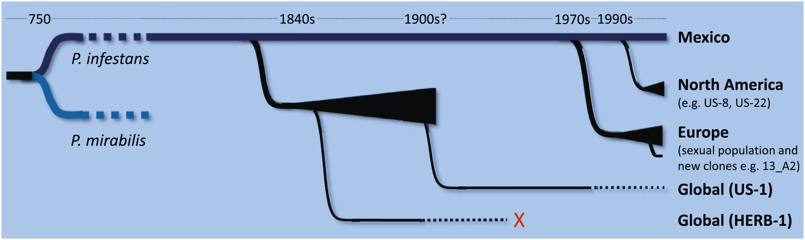 Phytophthora infestans migration and diversification